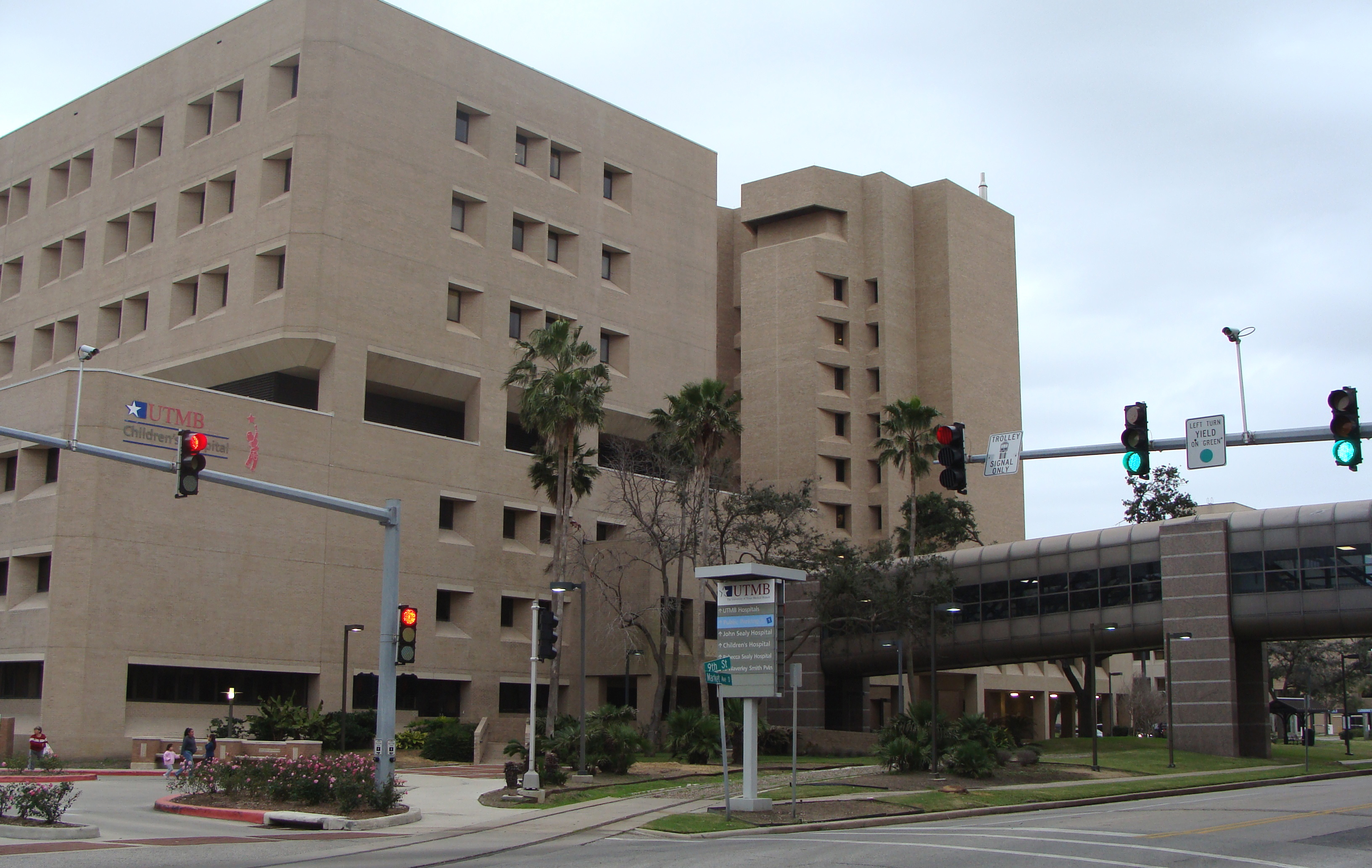 UTMB Children's Hospital, with John Sealy Hospital in the background. Galveston, TX.